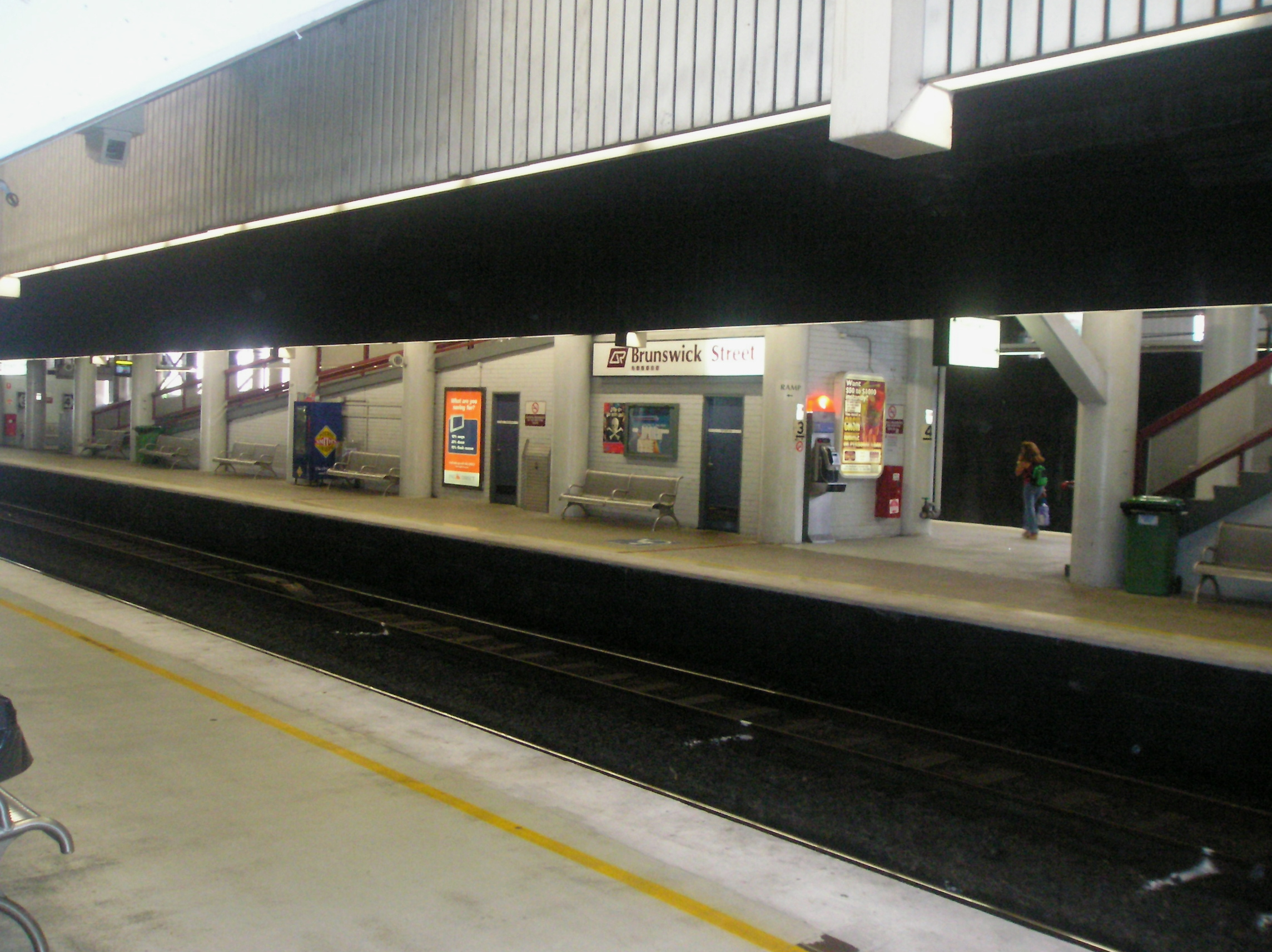 Platforms on Brunswick Street Station.